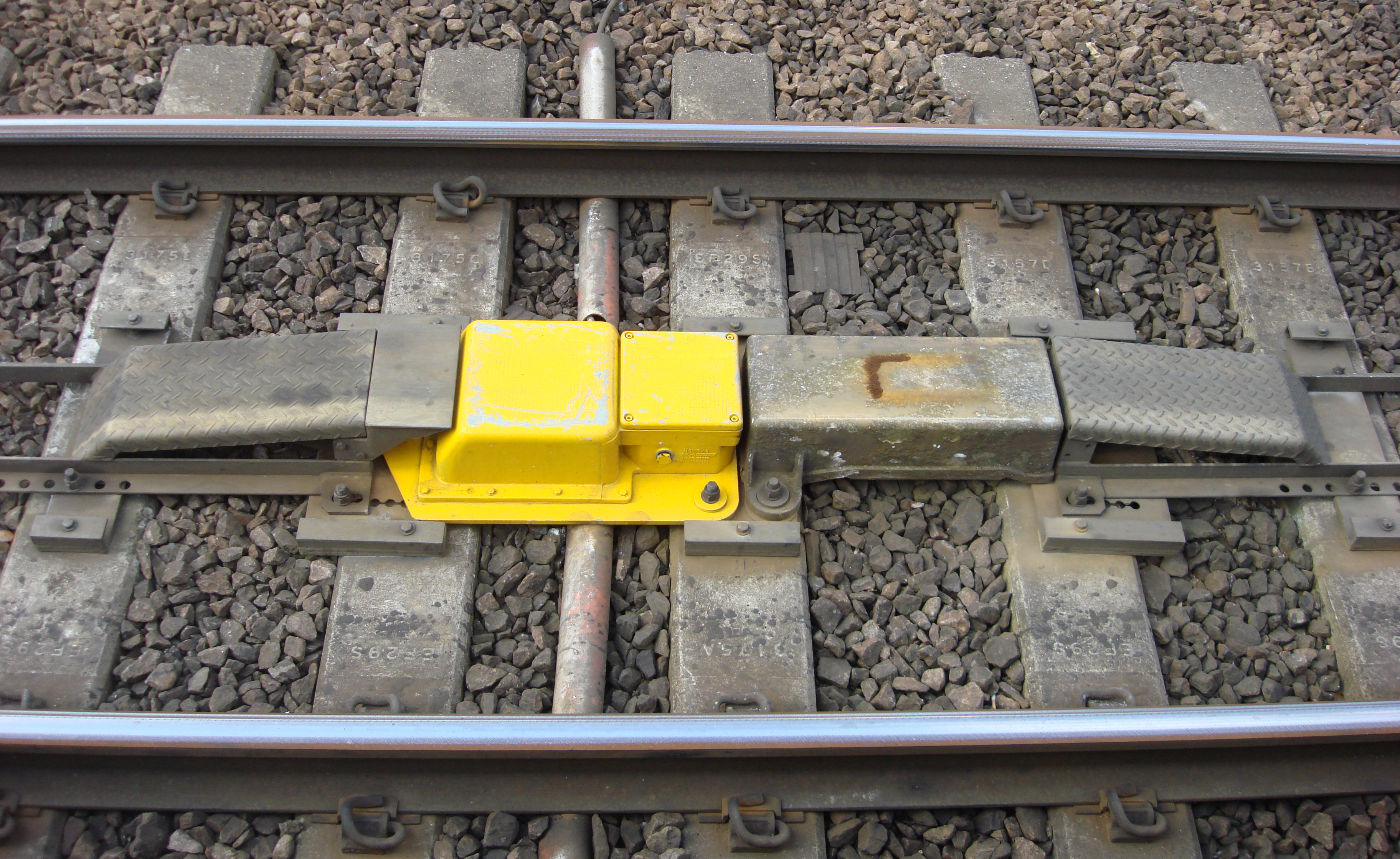 A BR AWS inductor at Marks Tay